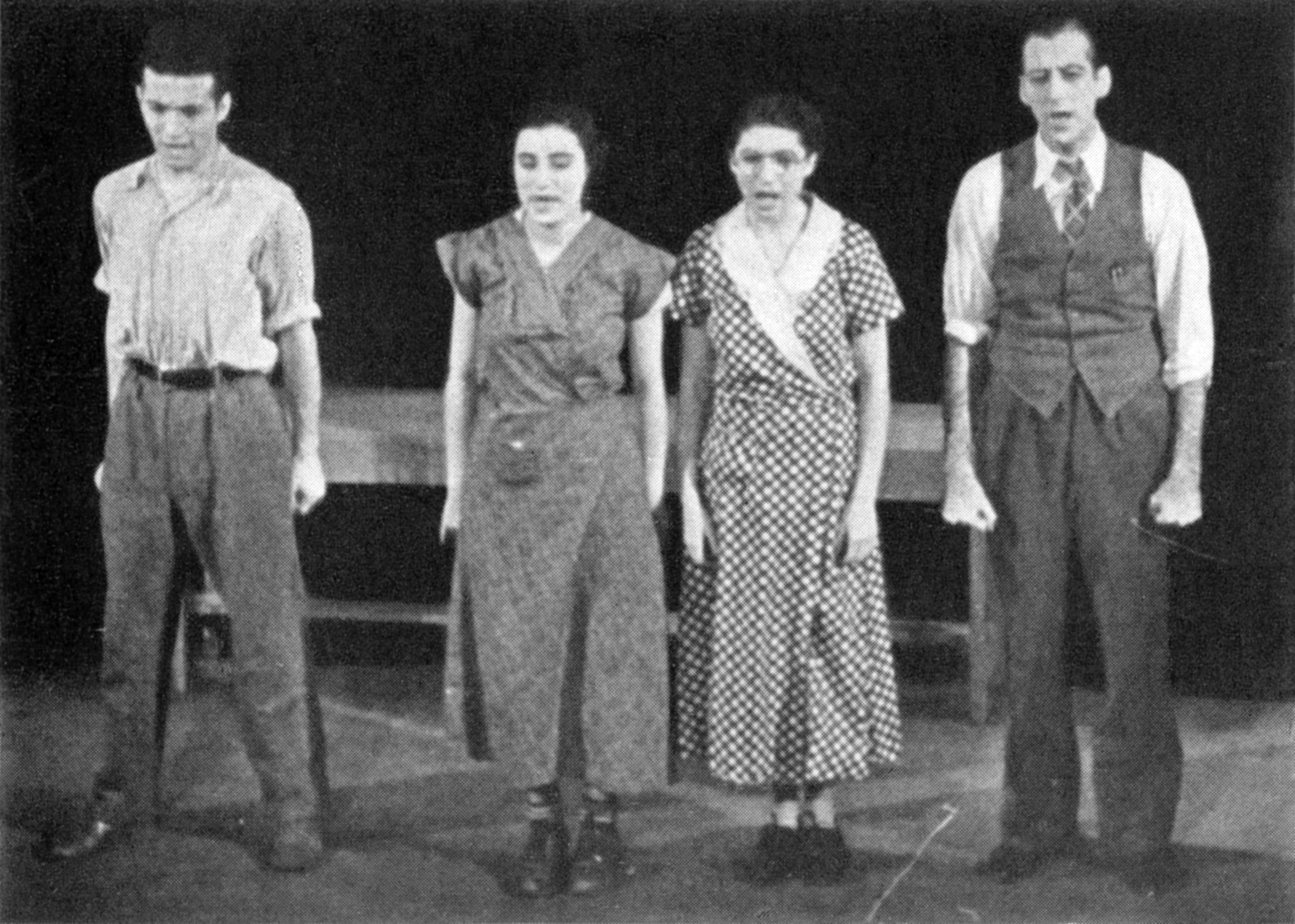 Photograph of four cast members performing Pins and Needles in New York, December 18, 1937 Caption reads as follows:Four ILGWU players launch into a vigorous parody.